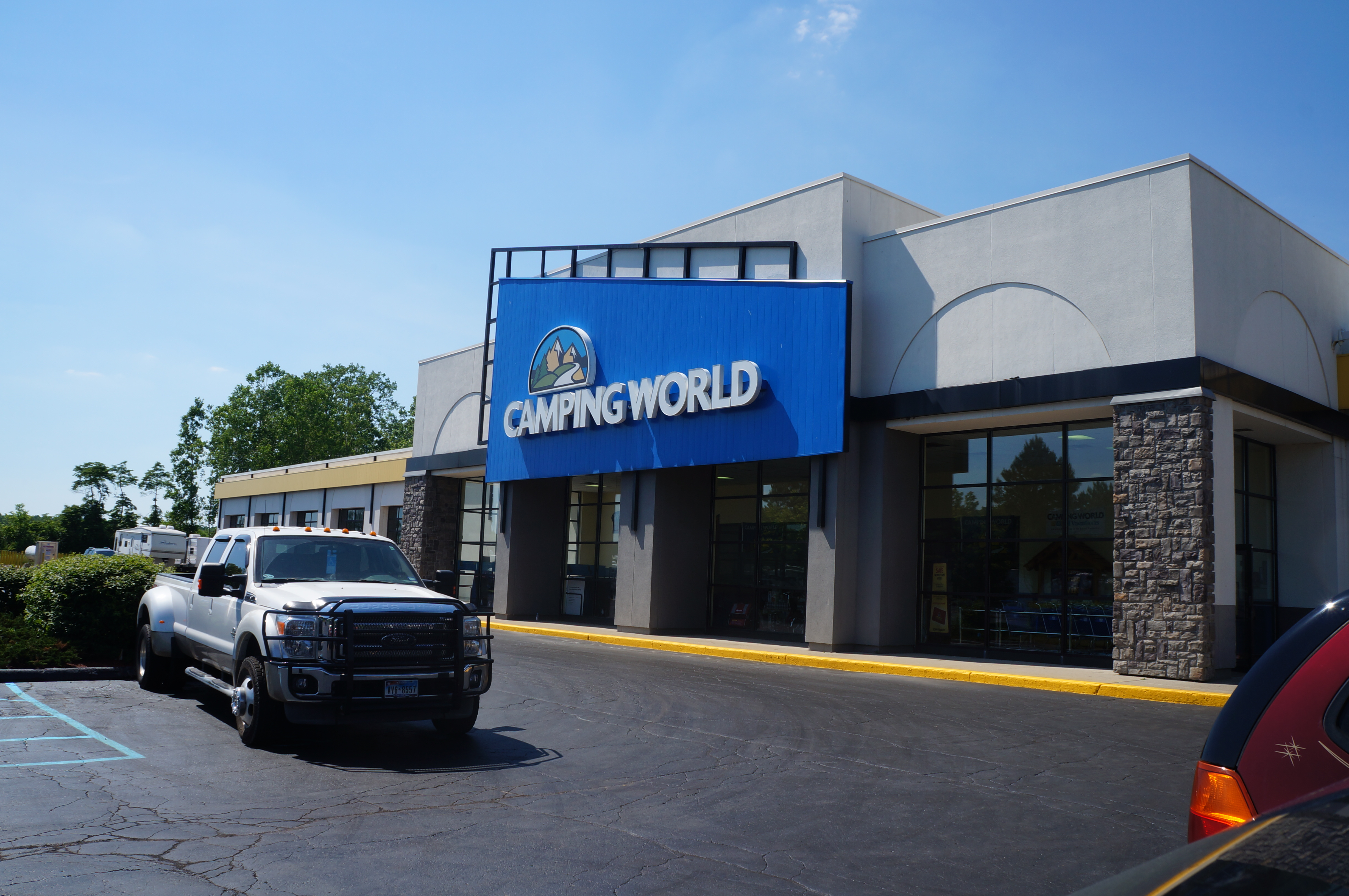 A photograph of Camping World's location in Belleville, Michigan